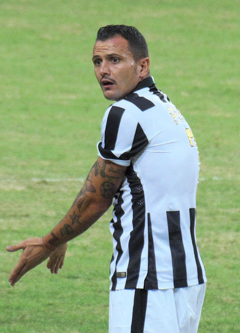 Juventus' footballers Simone Pepe playing in a pre-season friendly against Singapore Selection in August 2014.